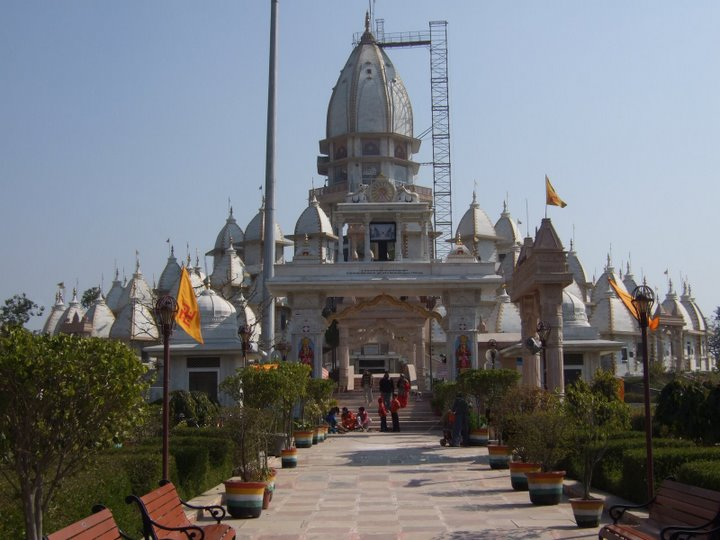 Kailash Parvat Rachna,Digambar Jain Temple